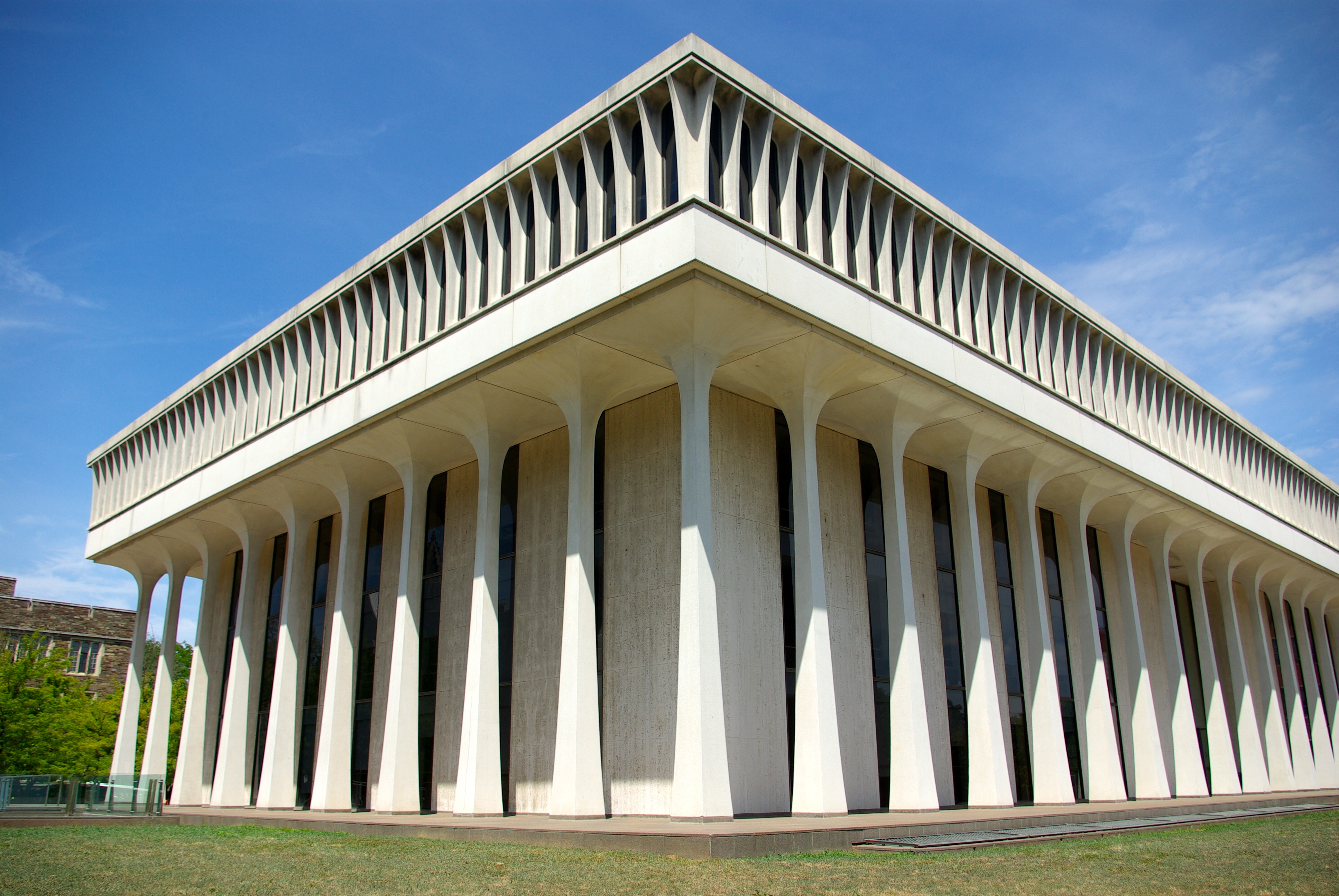 Robertson Hall, home to Princeton University's Woodrow Wilson School of Public and International Affairs